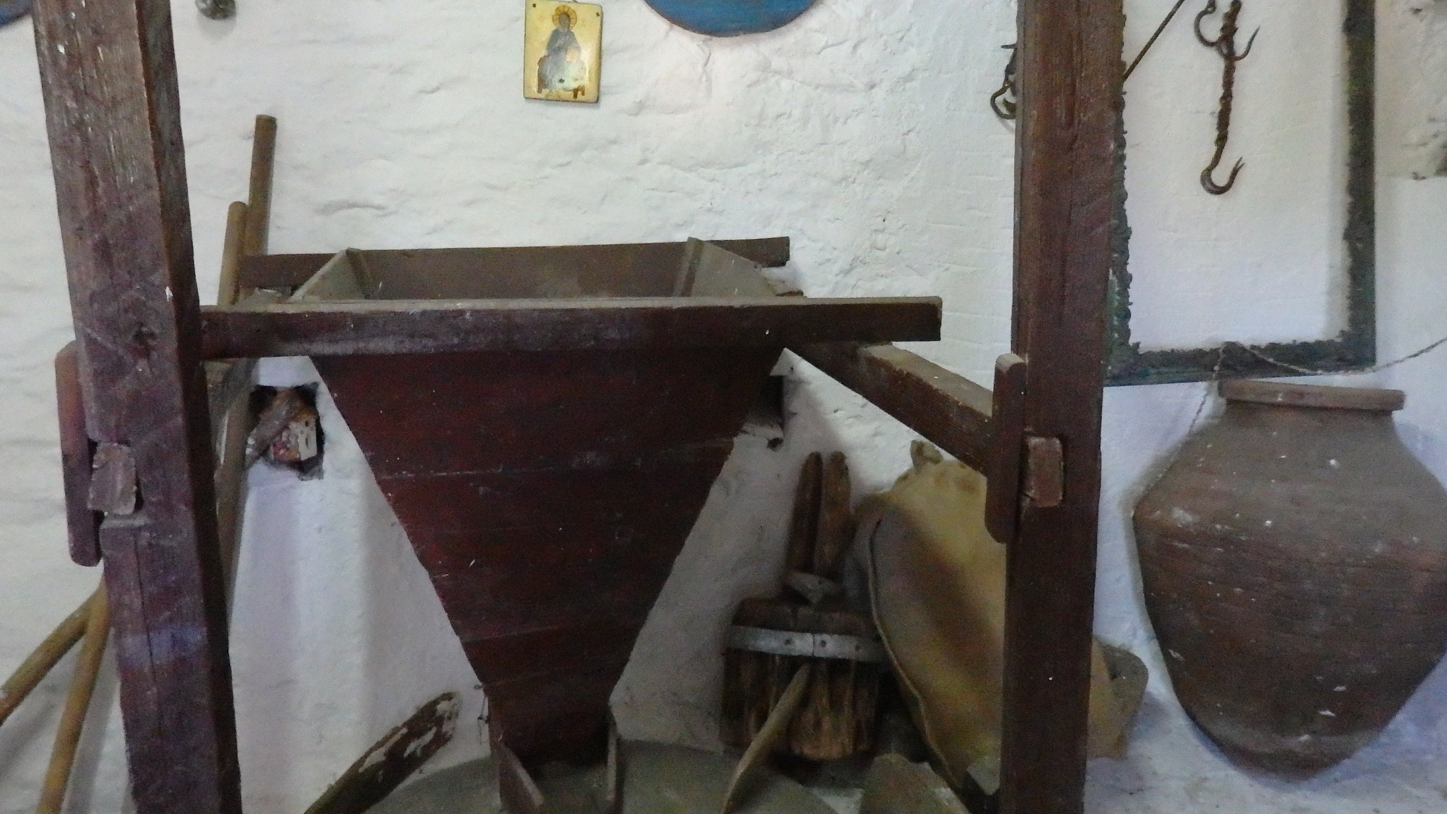 Watermill in village Zia, Kós